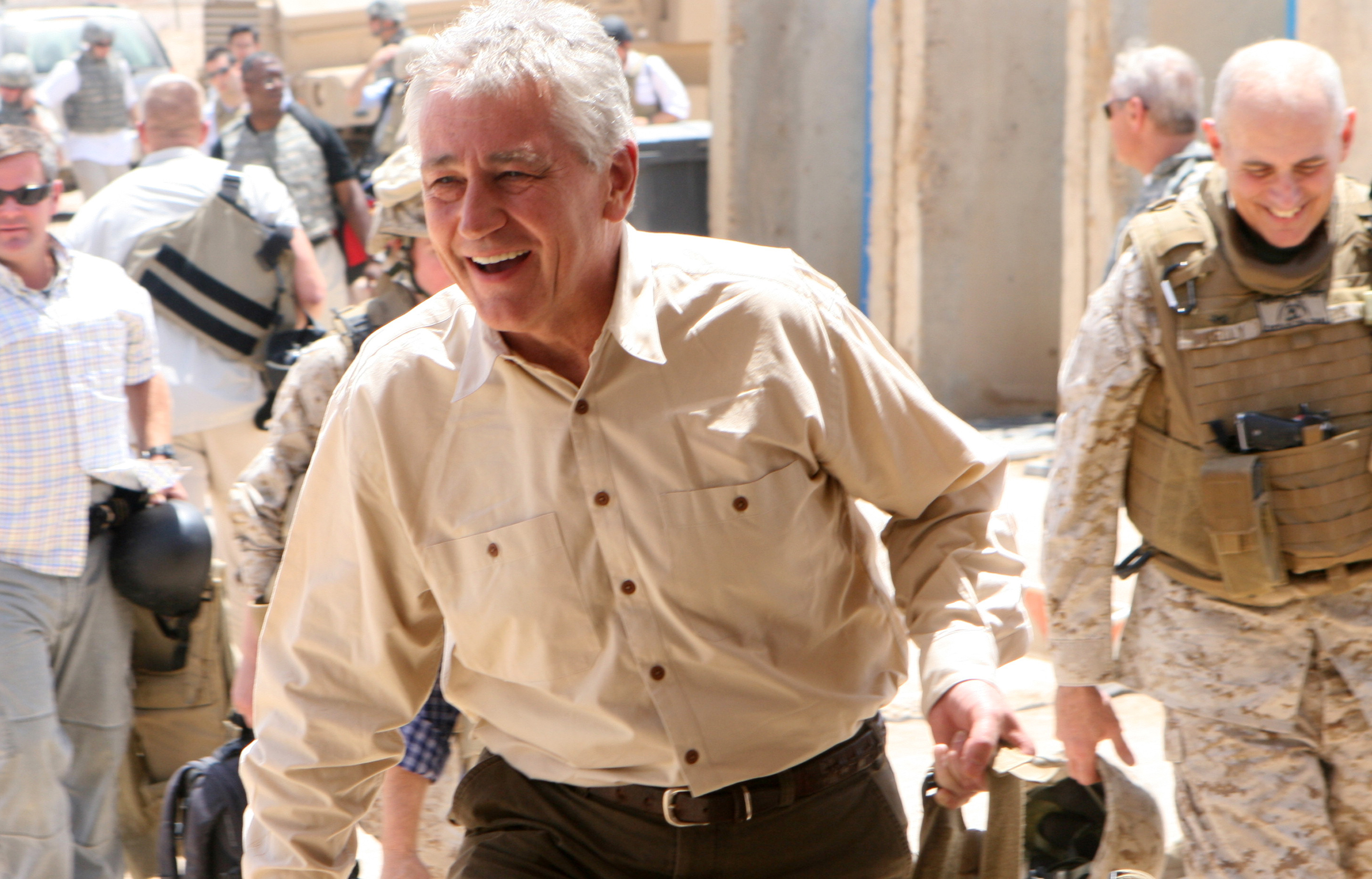 Sen. Chuck Hagel (R-Neb.) arrives at Camp Ramadi for a short visit with U.S. servicemen, July 22. Sen. Chuck Hagel accompanied Sens. Barack Obama (D-Ill.) and Jack Reed (D-R.I.) on the trip.